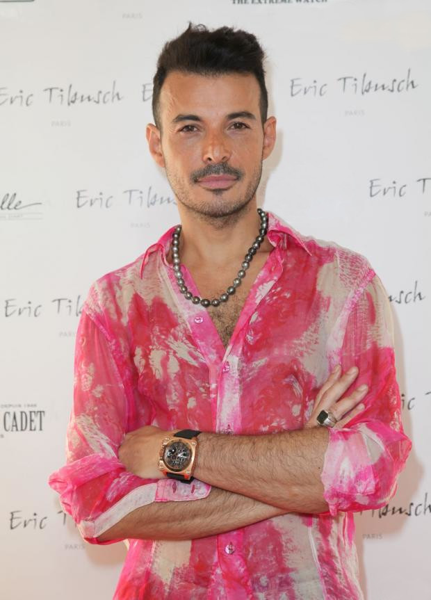 French emerging designer